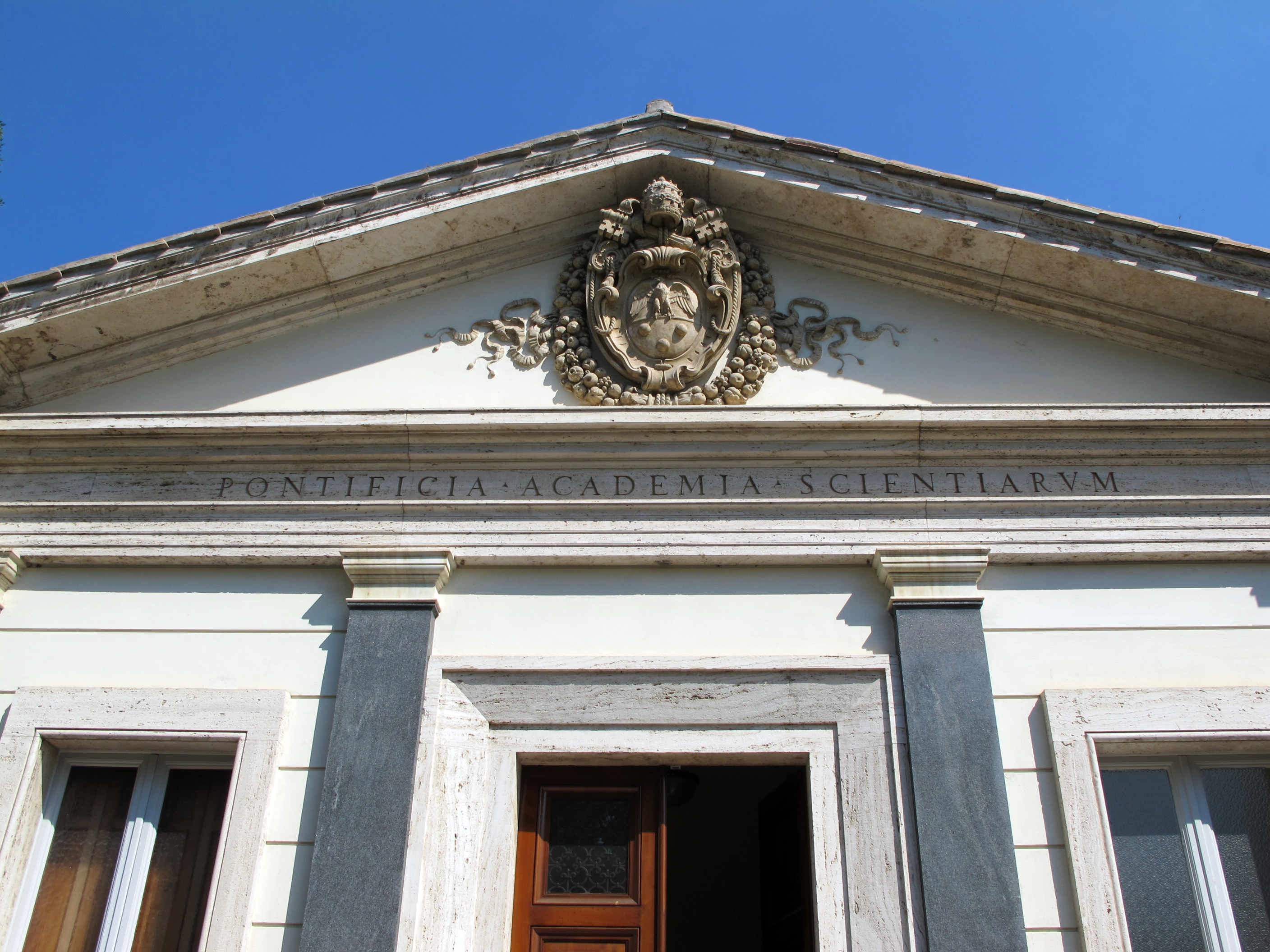 Pontifical Academy of Sciences